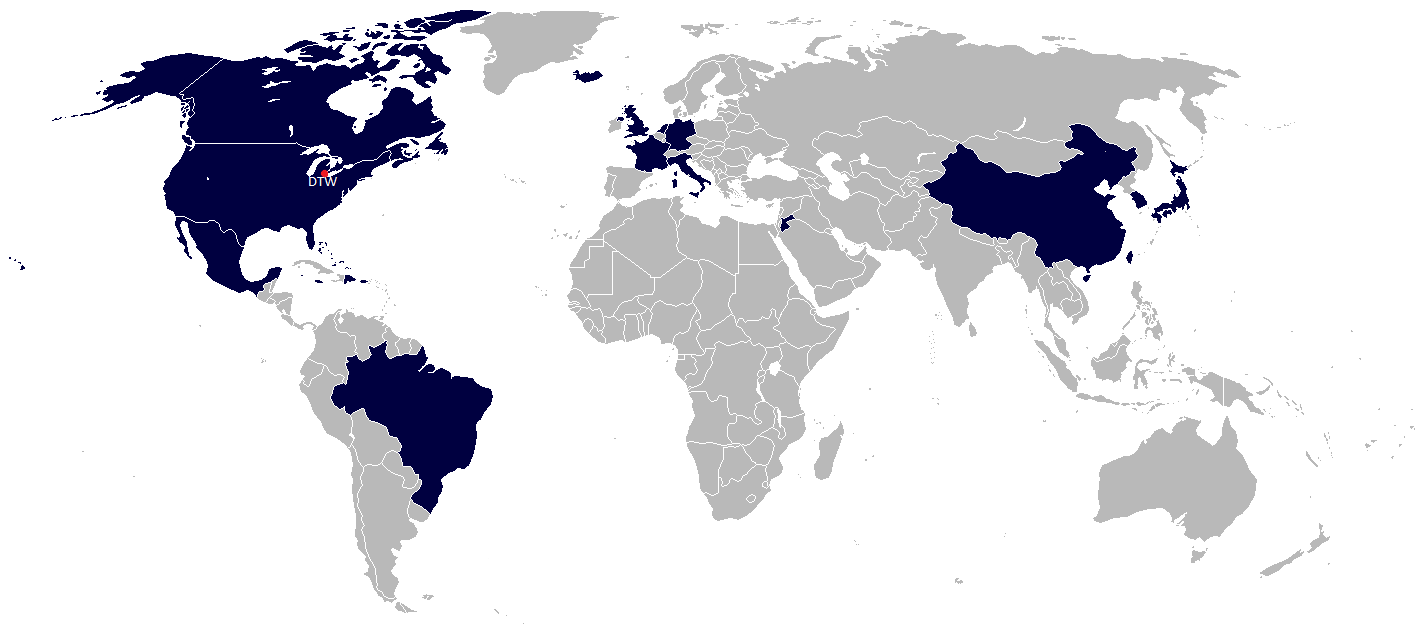 Countries served by flights to and from Detroit including seasonal and future destinations.